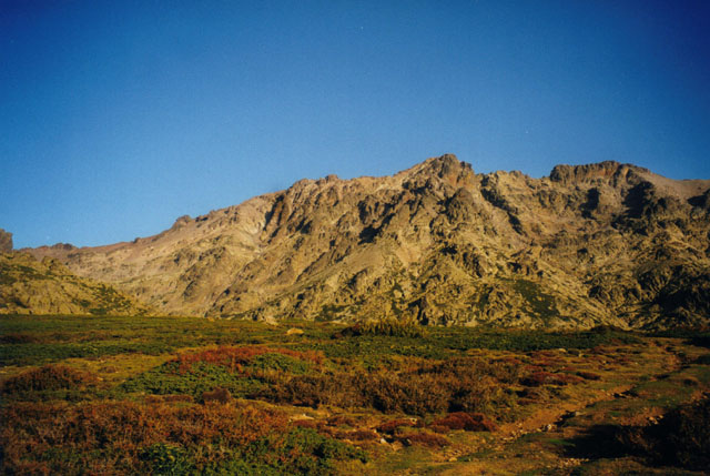 Monte Cinto seen from Refuge de l'Ercu, southeast, the summit is right to the center, Corsica.